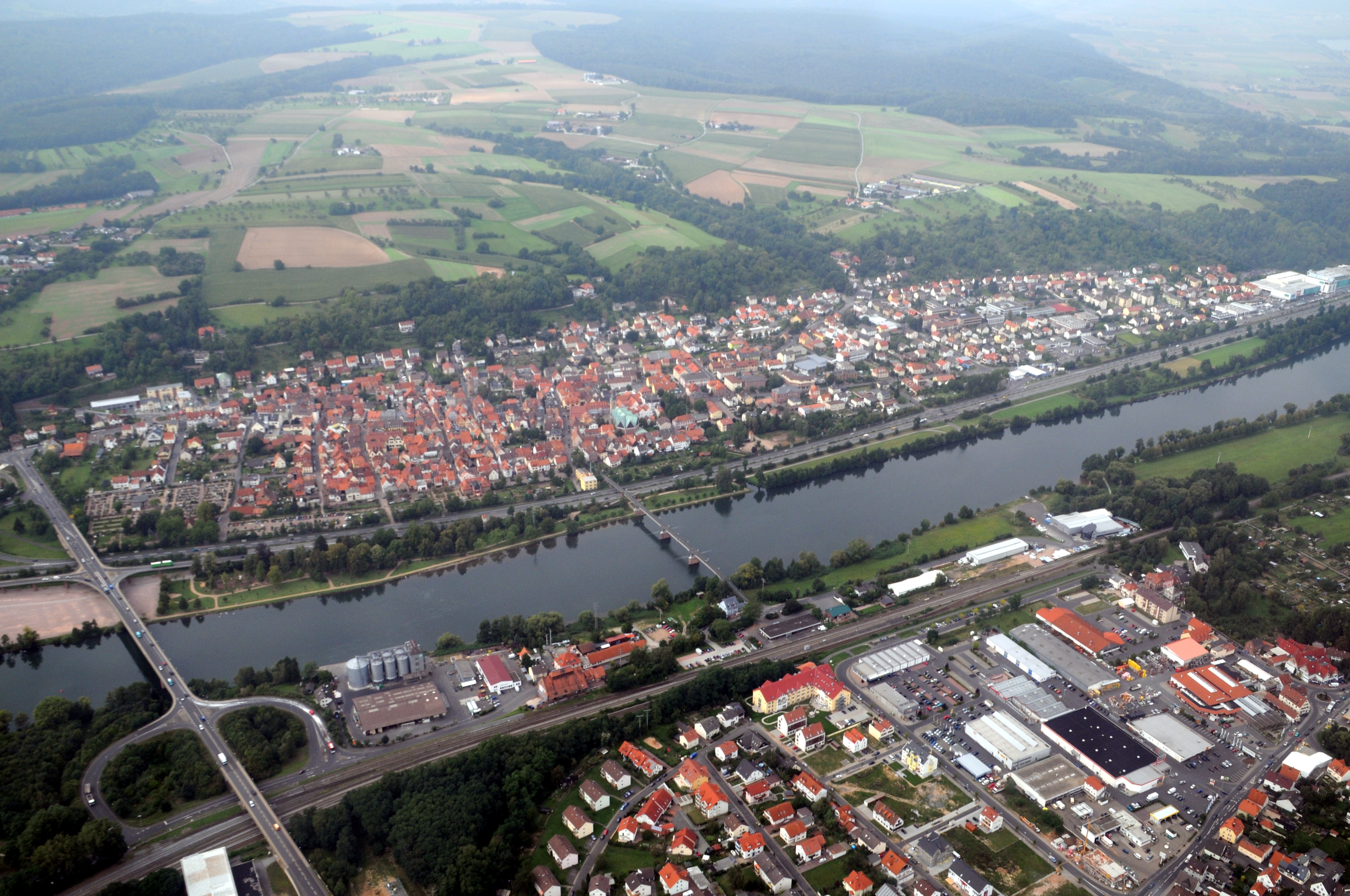 Obernburg am Main, Bavaria, Germany, aerial photograph